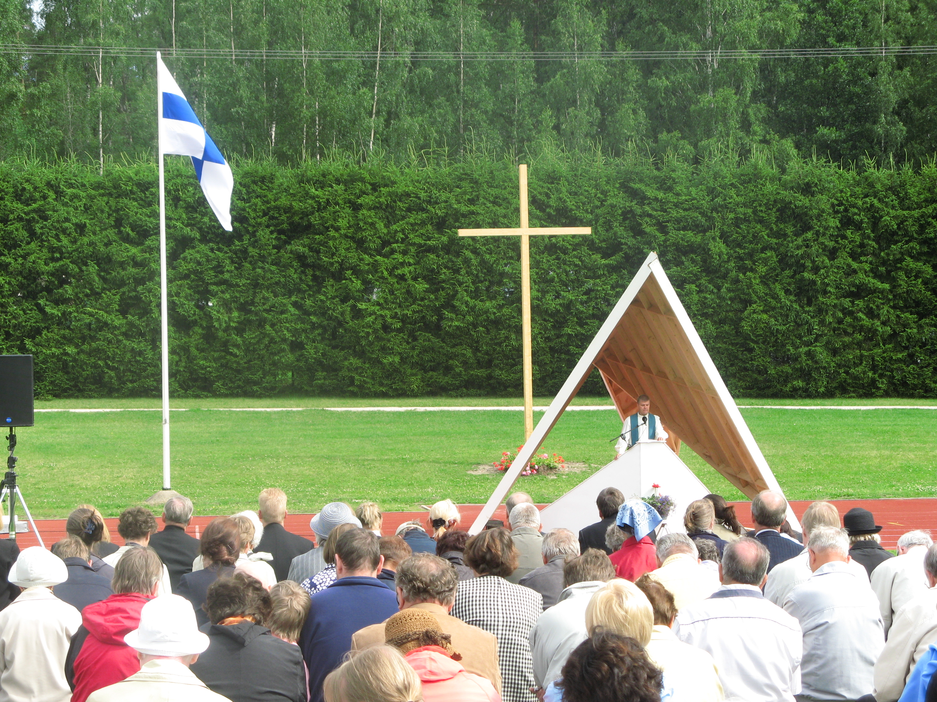 Herättäjäjuhlat – religious awakening festival, Espoo, Finland 2008